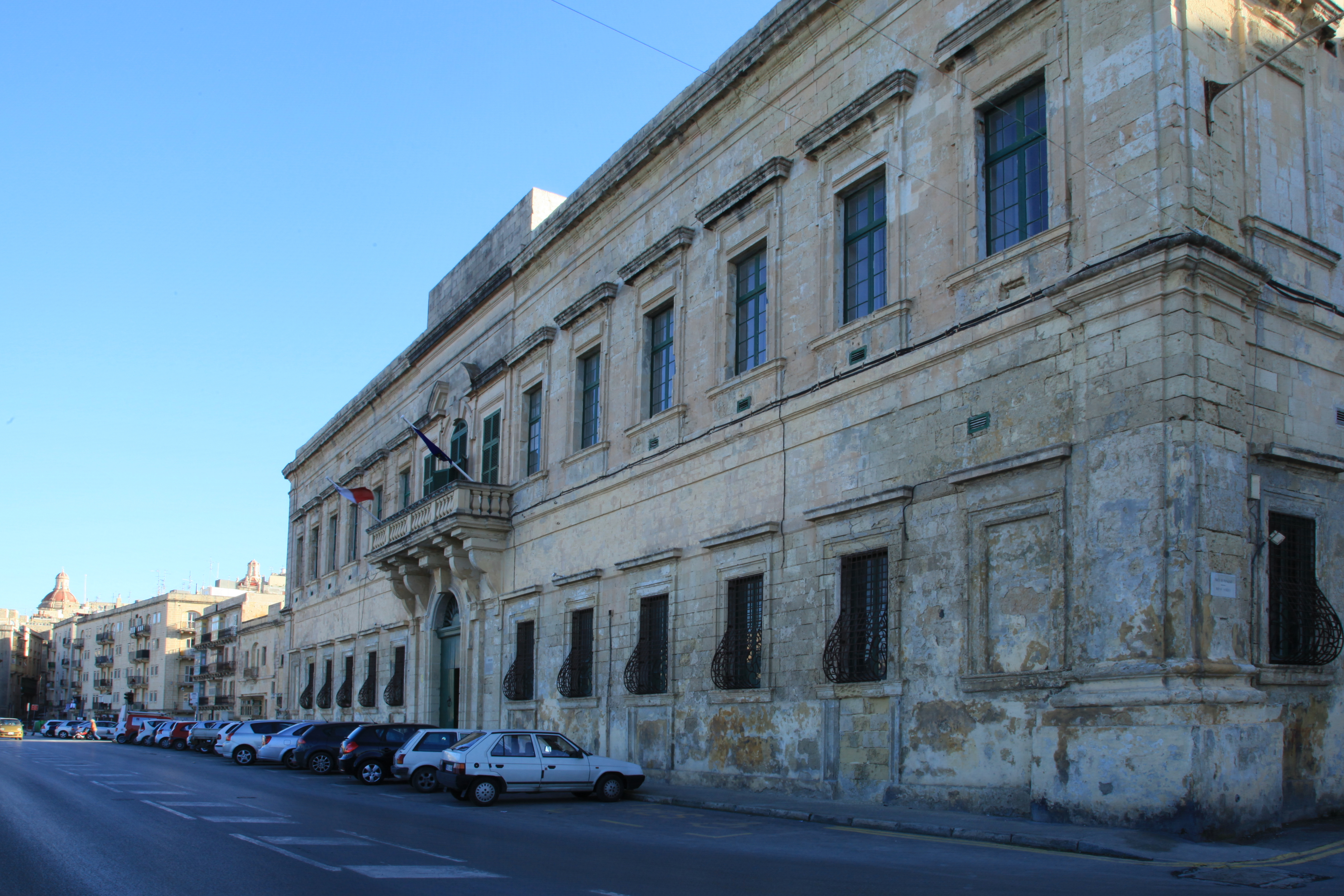 Auberge de Bavière, Triq San Bastjan in Valletta, Malta